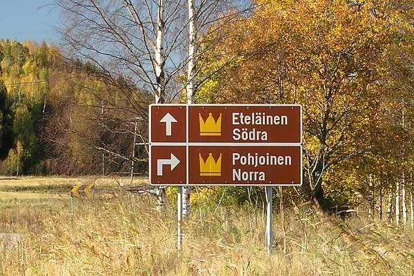 A road signs on the King's road in Siuntio, Finland